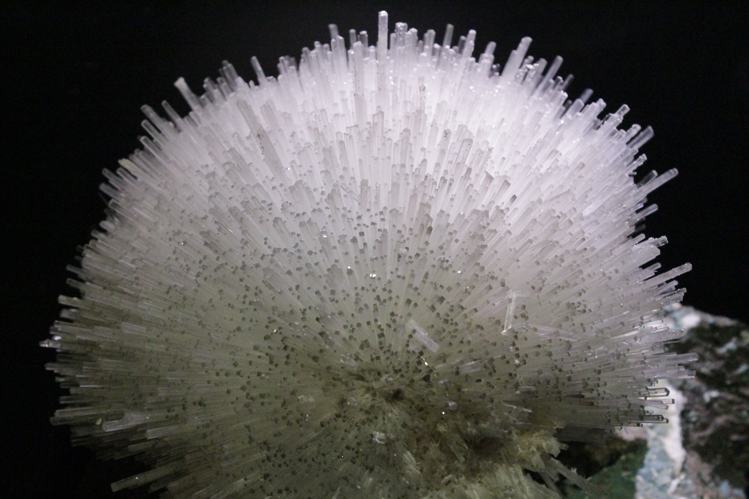 Mesolite from Bombay, Hunterian Museum, Glasgow